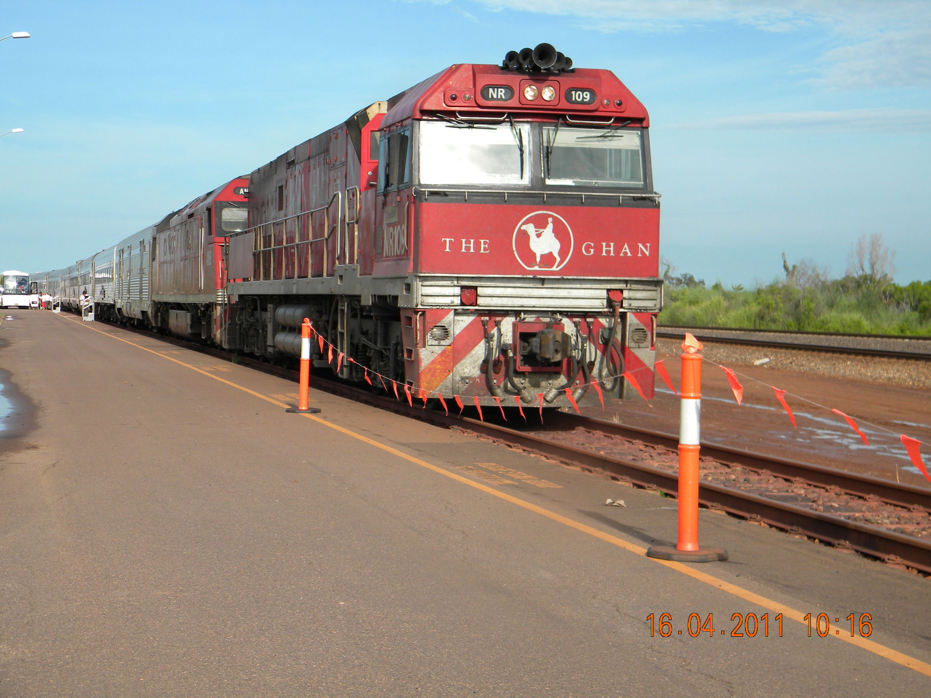 Ghan awaiting departure in Darwin